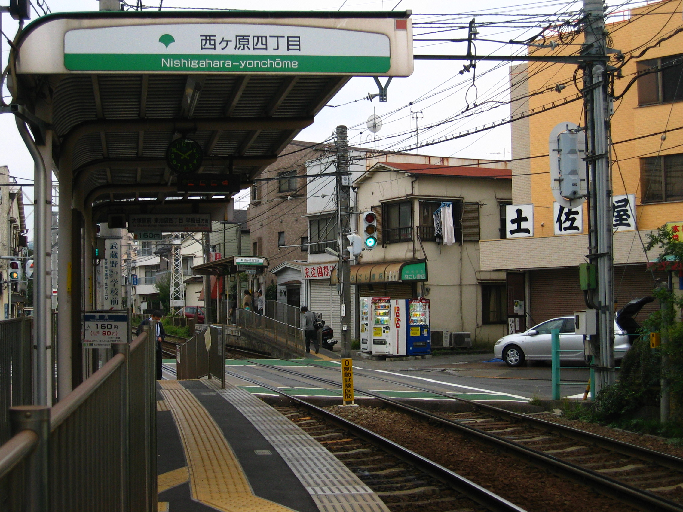 Toden Arakawa Line,Nishigahara Yonchōme Station. (Tokyo, Japan)